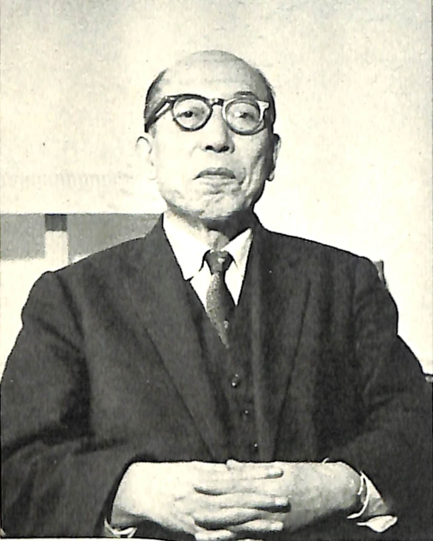 Sogo Sukesada（十河佑貞,1899–1989）,Japanese Historian of Western